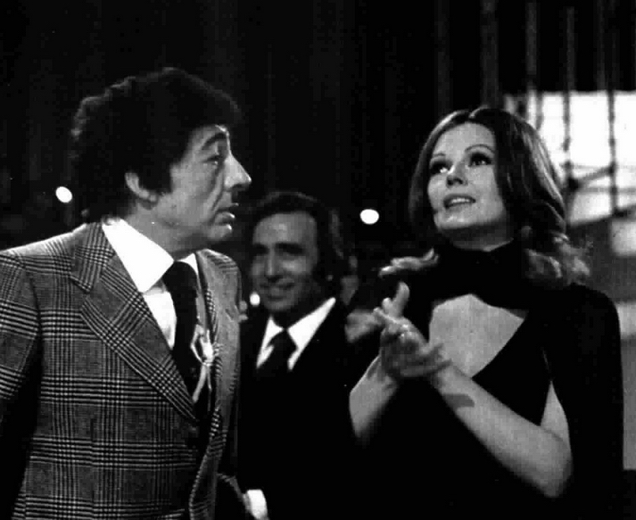 Italian actors Gino Bramieri and Beba Loncar in the Italian TV show Hai visto mai?